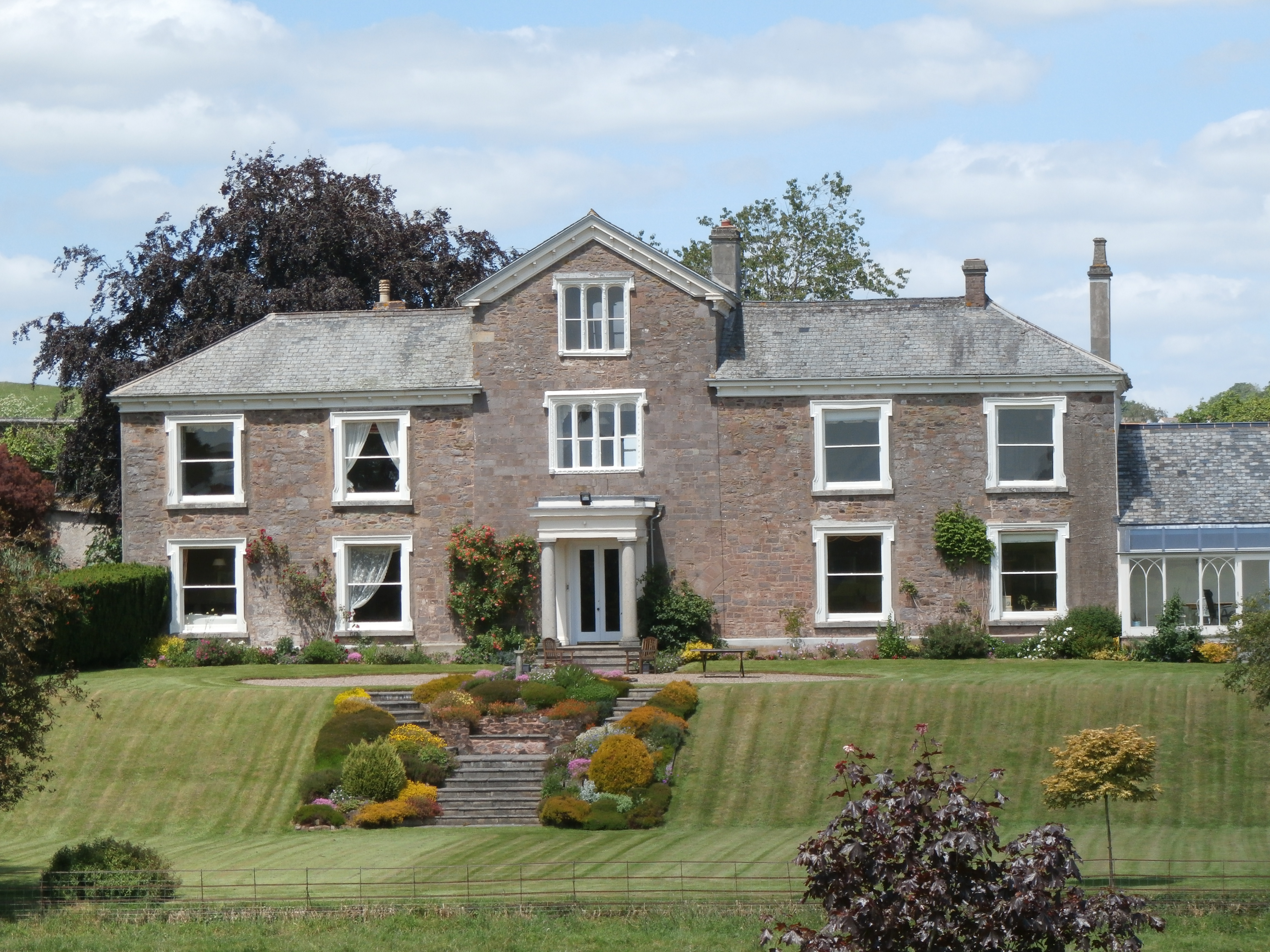 Coplestone House, until 1993 in the ecclesiastical parish of Colebrooke, Devon. Since 1993 in the modern civic parish of Copplestone. Circa 1787, built by Robert Madge on the site of the ancient manor house of the Copleston family. (Pevsner, Devon, p.277)